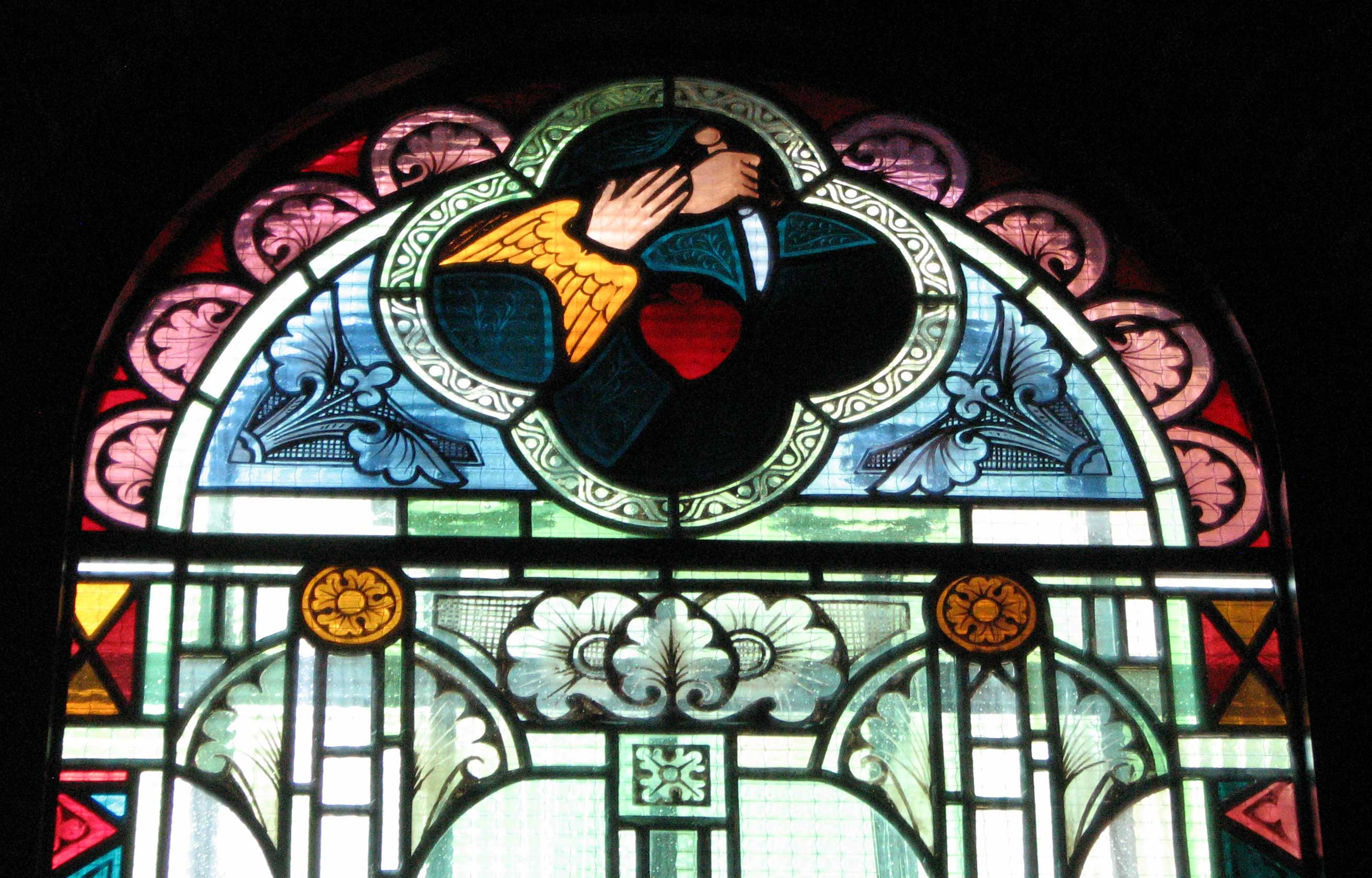 Stained glass window in the left aisle of the Basilica of St. Louis King in Katowice Poland, XX century - upper part of the stained glass window